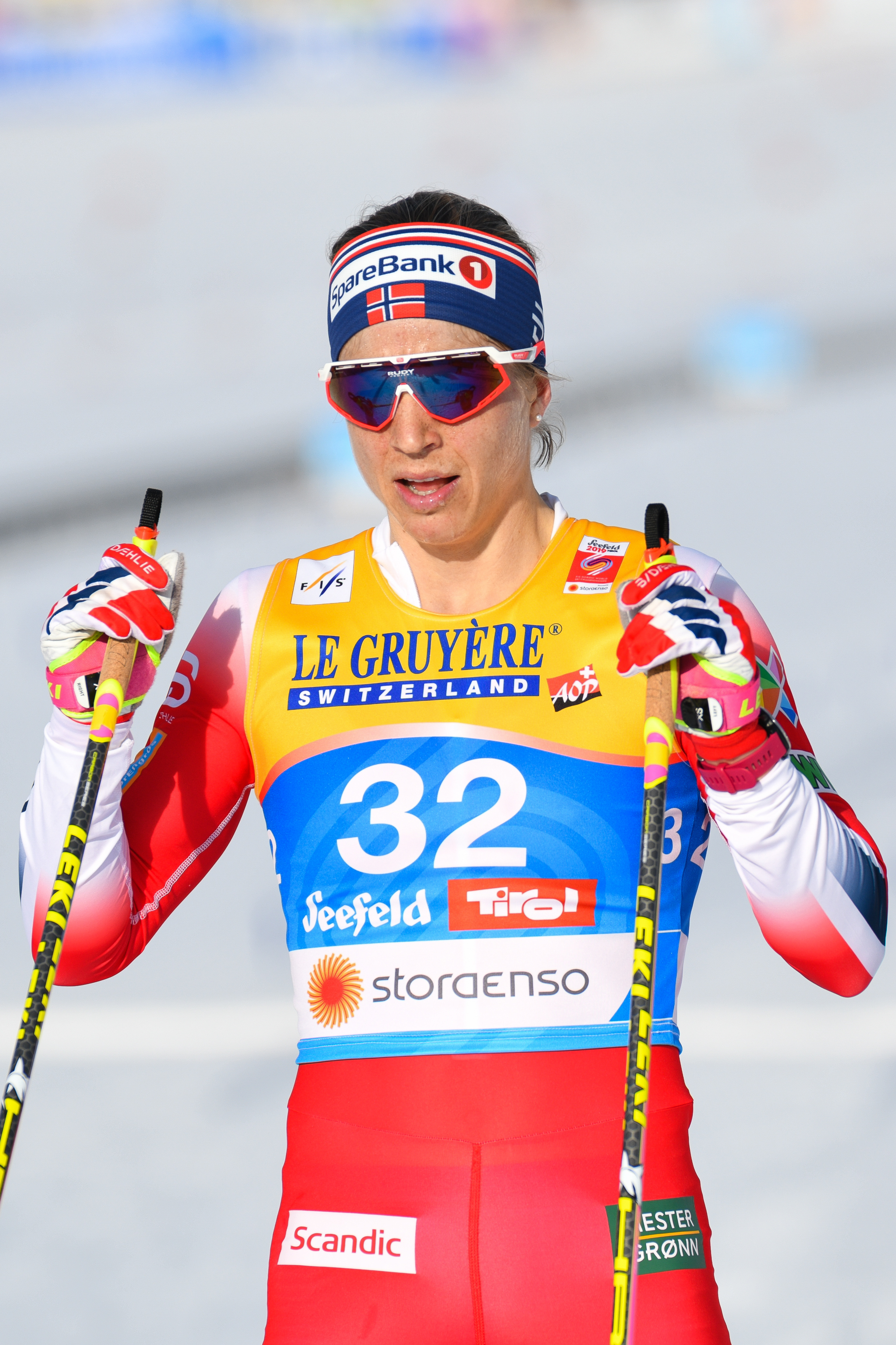 FIS Nordic World Ski Championships Seefeld 2019 - Ladies Cross Country 10km. Picture shows Astrid Uhrenholdt Jacobsen (NOR).